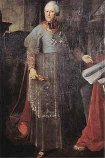 Joseph Christian Franz zu Hohenlohe-Waldenburg-Bartenstein (1740-1817), Fürstbischof von Breslau